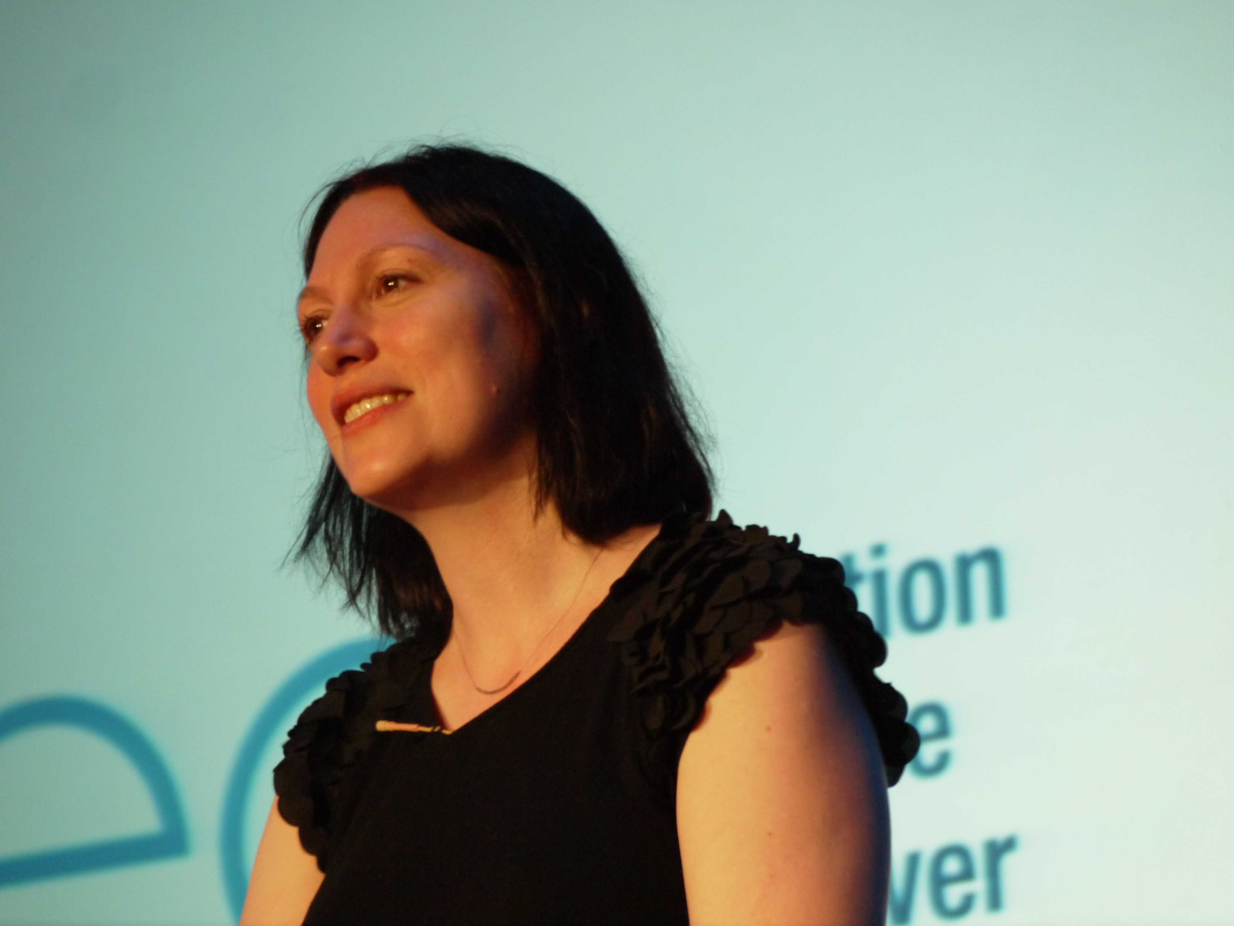 Natalie Haynes appears at QEDcon 2013